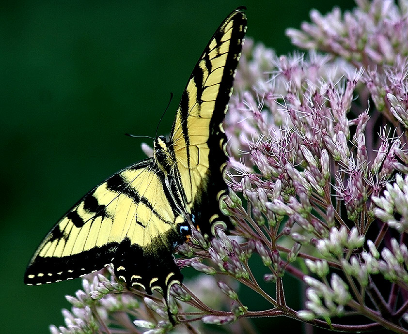 Eupatorium fistulosum flowers plus swallow tail butterfly. Taken By Paul HenjumSummer of 2005.